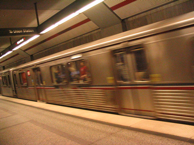 Wilshire/Vermont Metro subway station below Wilshire Boulevard, Los Angeles. Serving the Purple Line and Red Line. copyright 2006 steve crosley.